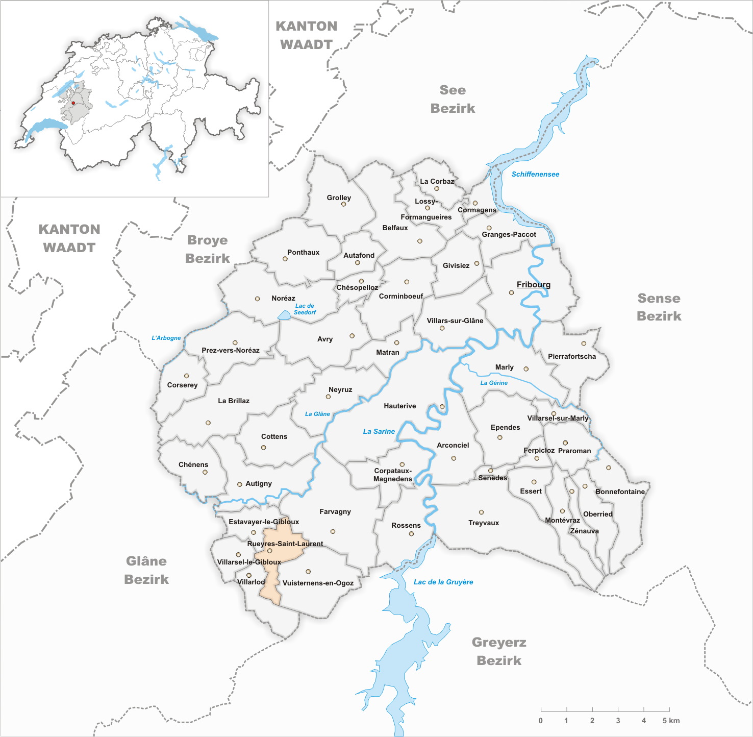 Municipality Rueyres-Saint-Laurent Artist: Tschubby